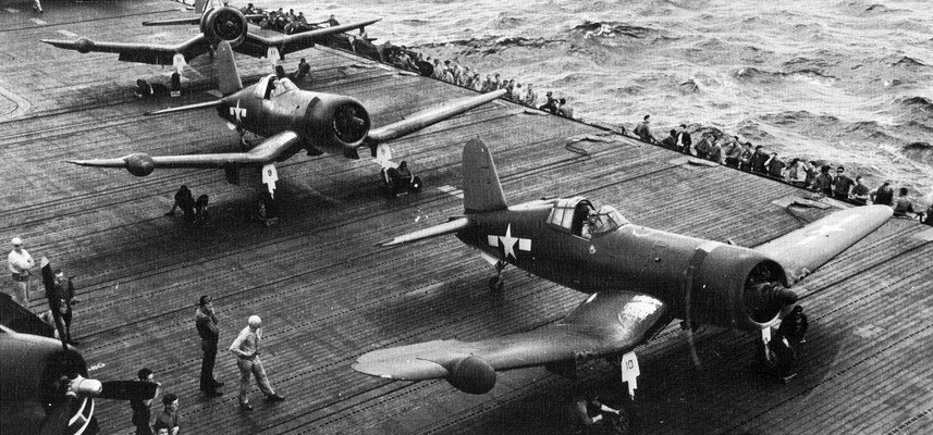 U.S. Navy Vought F4U-2 Corsair night fighters from Night Fighting Squadron VFN-101 abaord the aircraft carrier USS Intrepid (CV-11) during the Marshall Islands campaign in early 1944. A four-plane detachment of VFN-101 was assigned to Air Group 6 aboard the Intrepid.